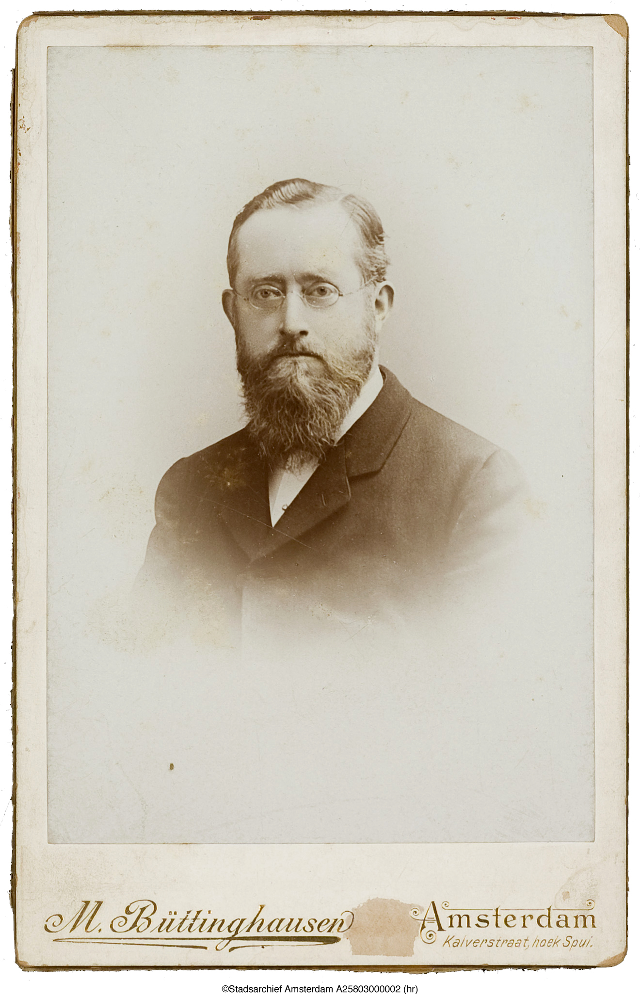 Jérôme Alexander Sillem (1840-1912), around 1890